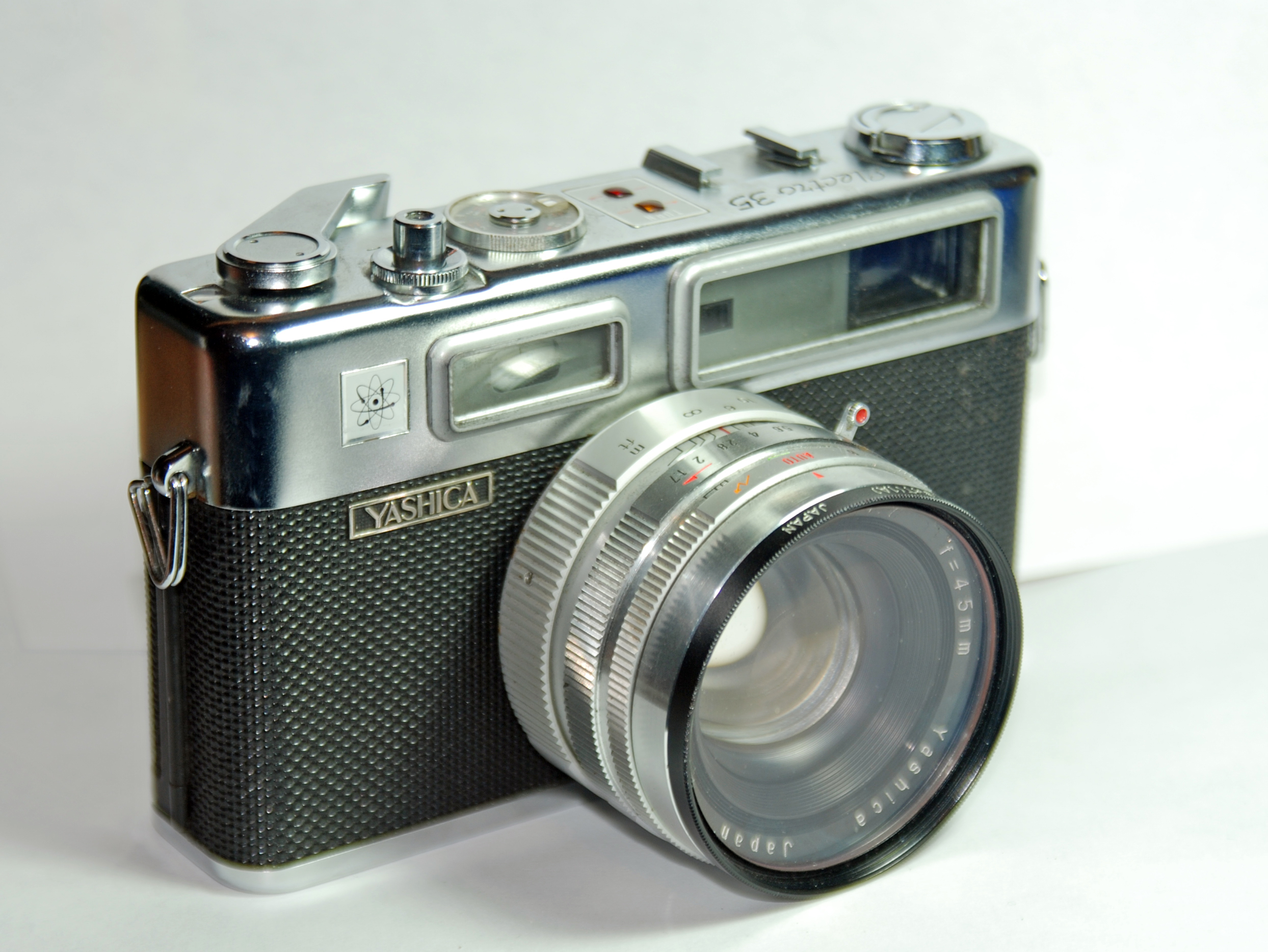 Yashica, electro, 35, rangefinder, 1964, yashinon, dx